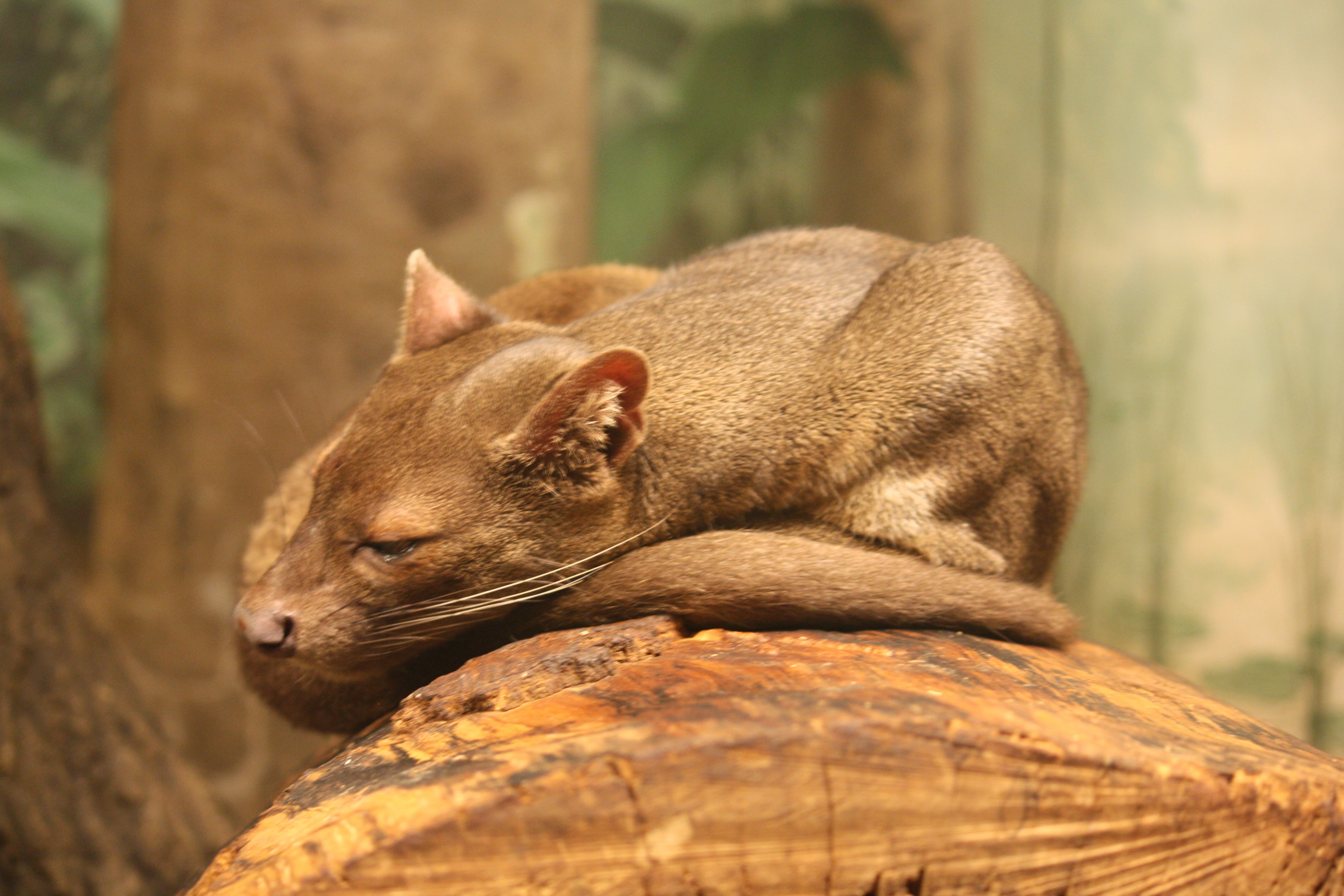 Fossa Cryptoprocta ferox at Cincinnati Zoo